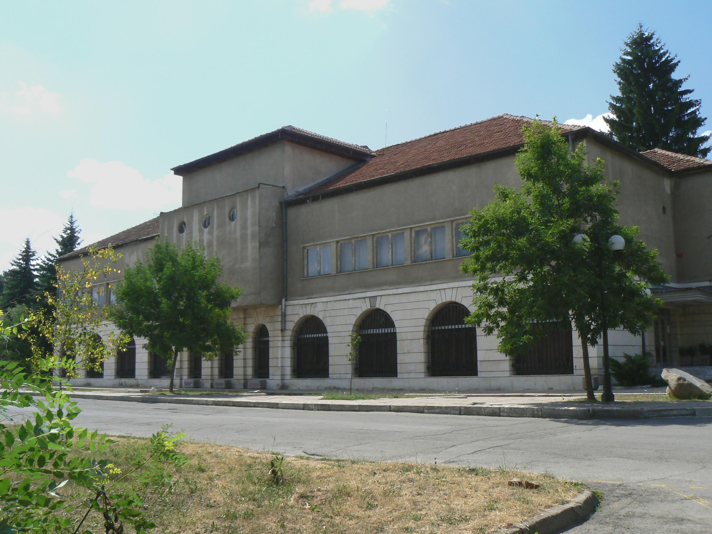 The building of Pernik history museum. Pernik, Bulgaria